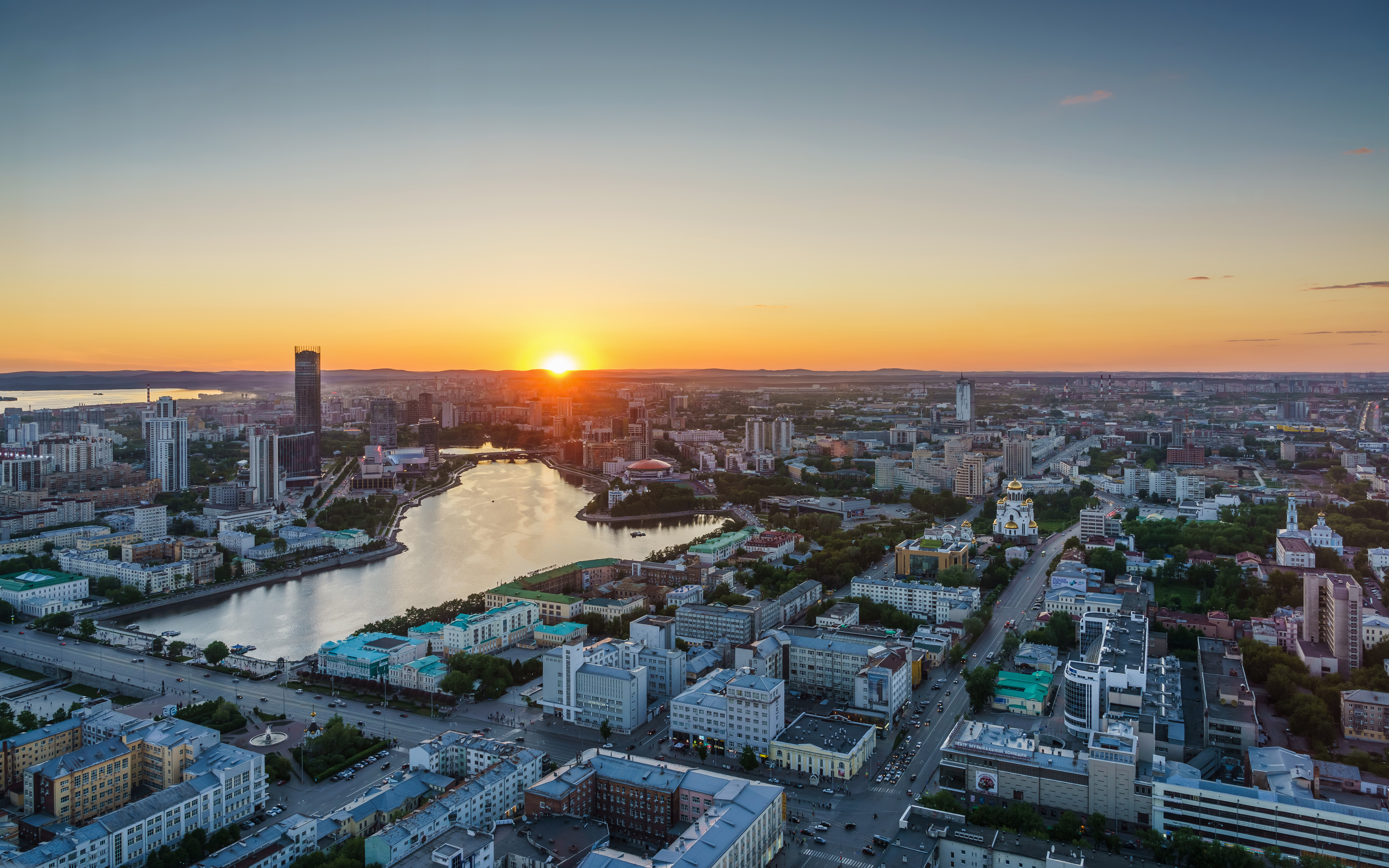 View from VysotSky Tower viewpoint in Ekaterinburg, Russia